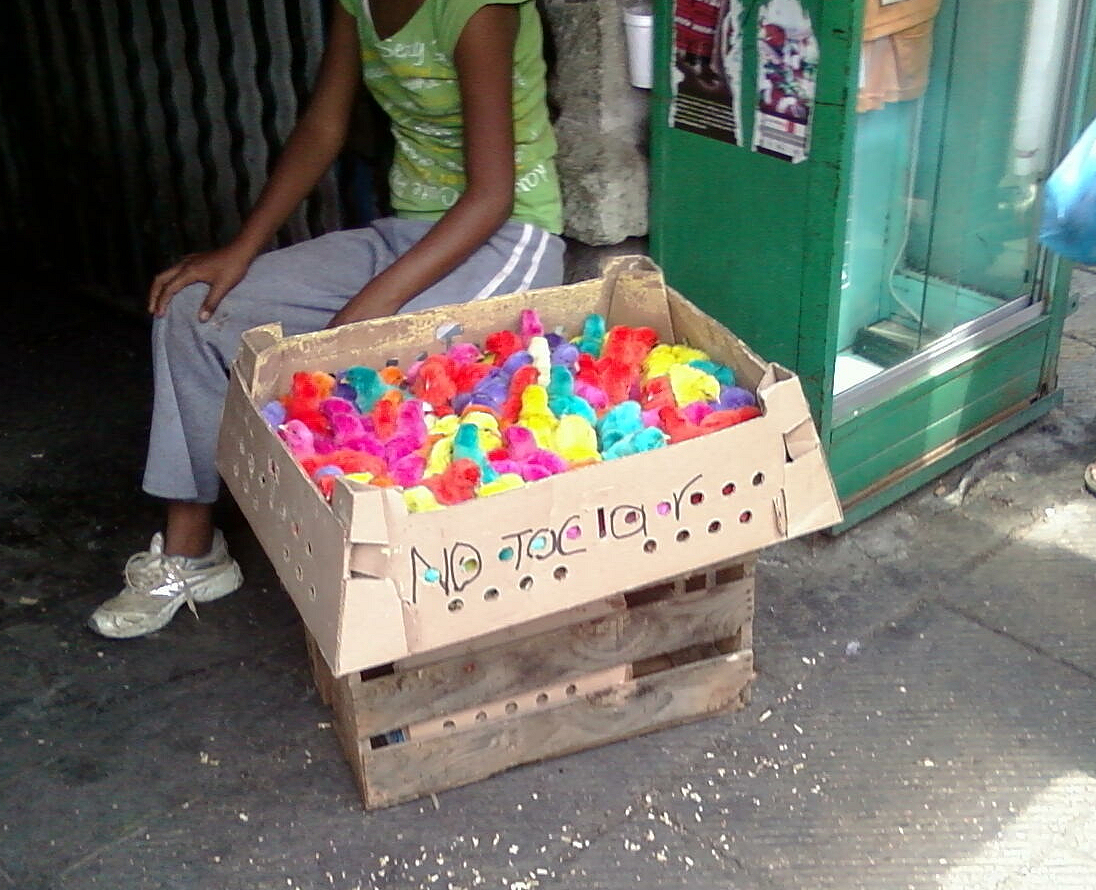 Baby chickens for sale at a market in Oaxaca, Mexico.